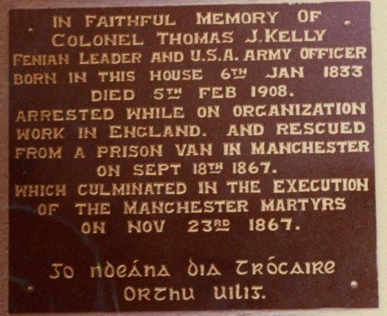 plaque on TJ Kelly's home in Mountbellew